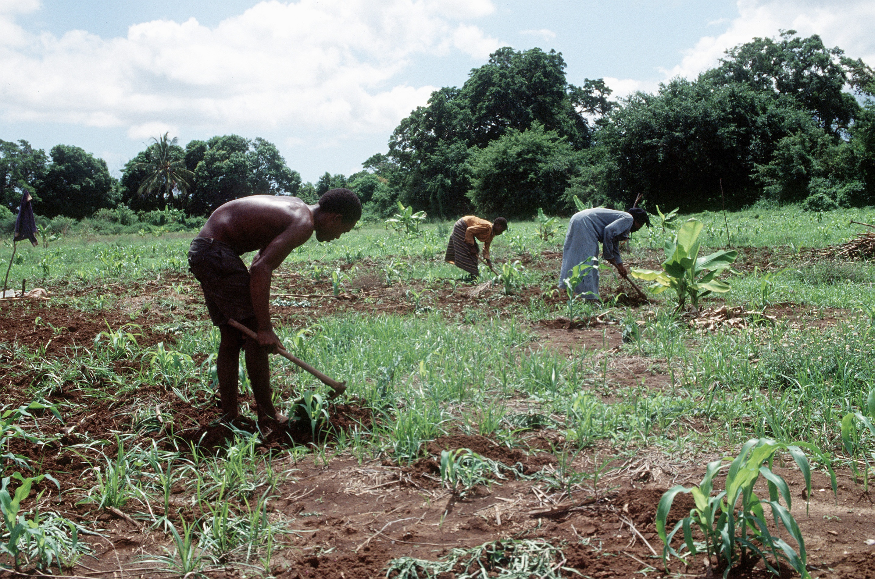 Bantu man and women working the fields near Kismayo.